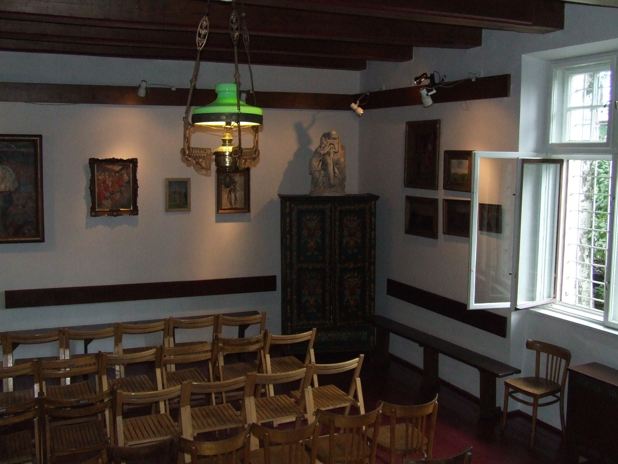 Lucjan Rydel house